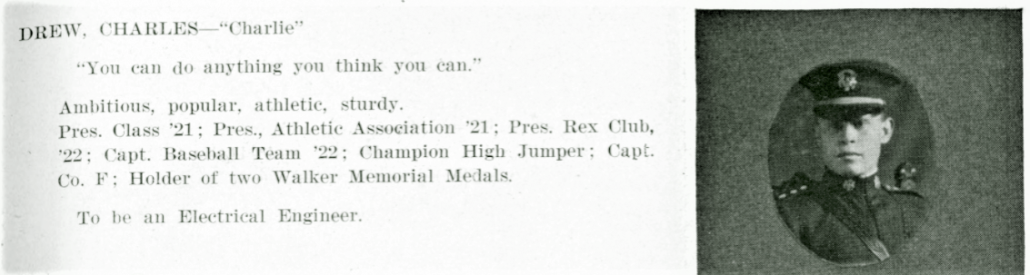 Entry of Charles Drew in Dunbar High School's 1922 yearbook.